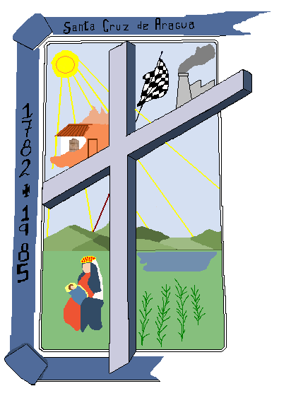 Coats of arms of José Ángel Lamas municipality. Aragua state, Venezuela